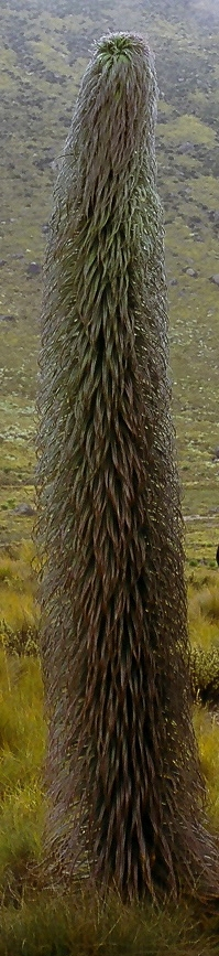 Showing the height of Lobelia telekii on Mount Kenya